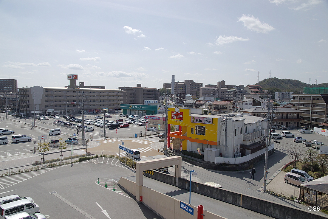 下見学生街01 (Student town)